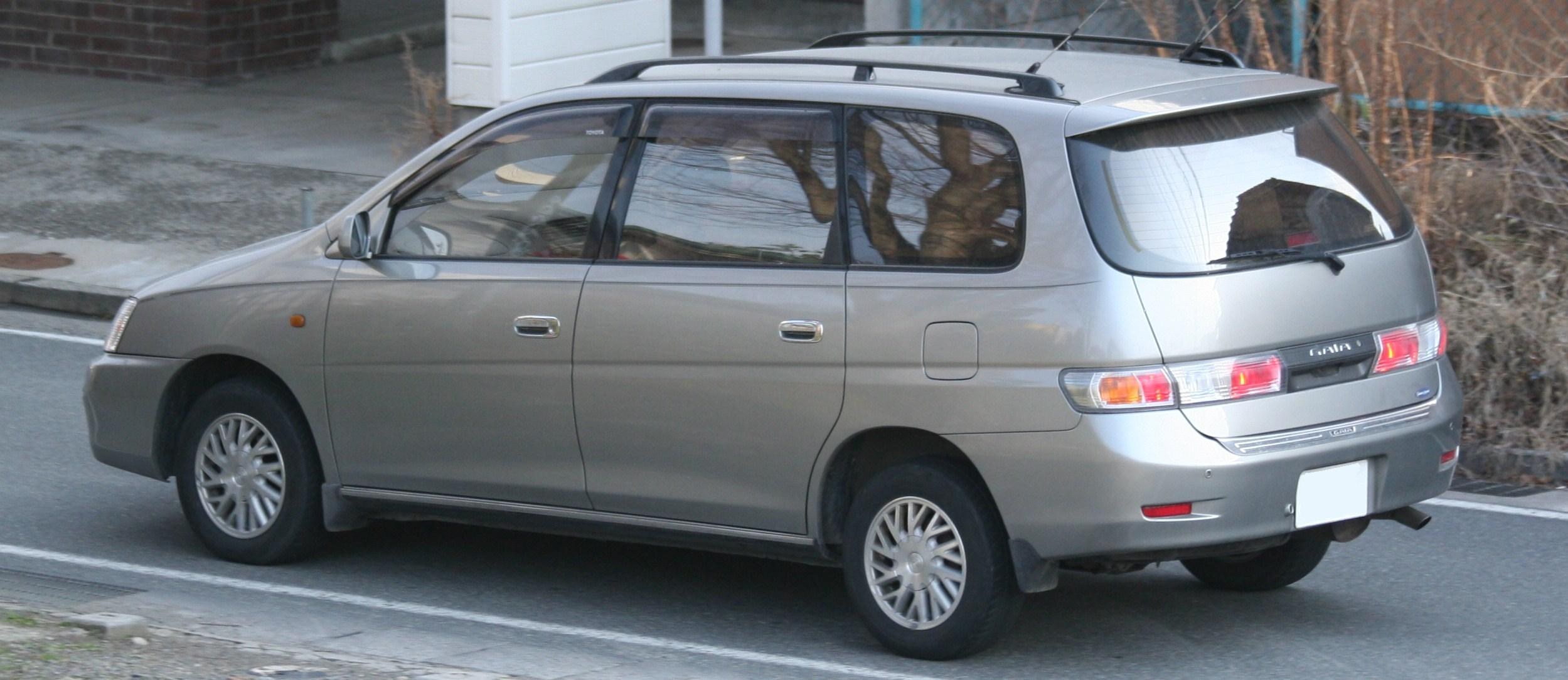 Toyota Gaia